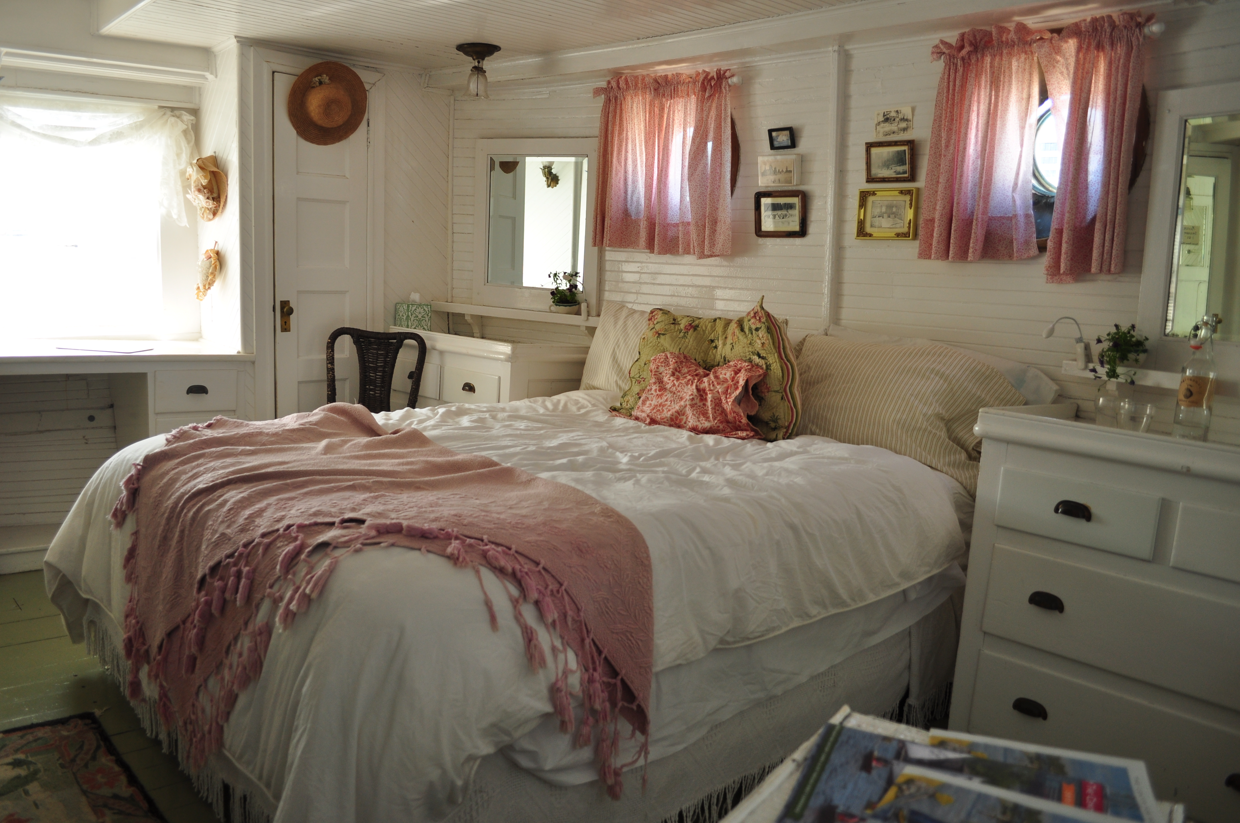 Master stateroom, MV Lotus, normally moored in Olympia, Washington. Photographed at Northwest Seaport, Lake Union Park, Seattle, Washington, USA during the 2013 Lake Union Wooden Boat Festival. The boat is temporarily in Seattle as a "floating hotel." The 1909 boat is listed on the National Register of Historic Places.